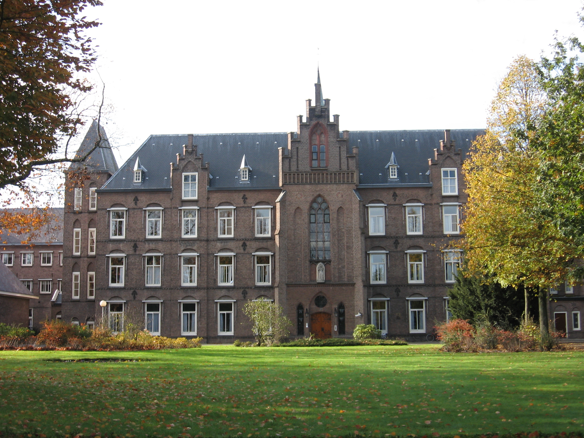 Mariënburg, Bussum